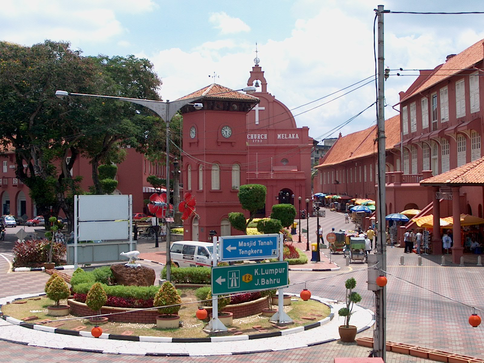 Round about at the Dutch Square town centre in Melaka, Malaysia, with Christ Church (partly obscured by a small tower) in the background, and Stadhuys on the right.